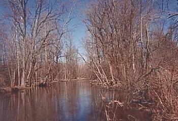 I. Michael Walter, a.k.a., "Cuppysfriend," took this picture in February 2001 and have the right to use it.